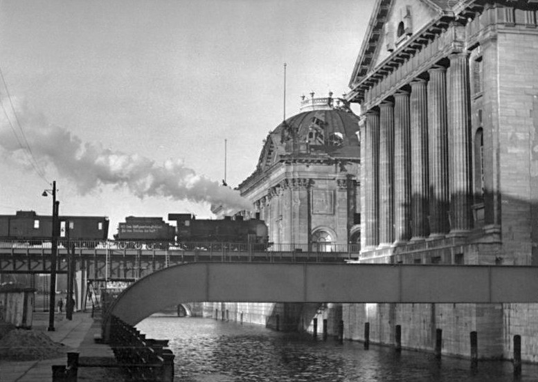 Translation of the original caption from the German Federal Archive: Berlin, Bode Museum, Pergamon Museum Illustration Junge December 12, 1951 View of Museum Island in Berlin. [Berlin.-Museum Island with the Bode Museum, steam locomotive on bridge, Pergamon Museum]